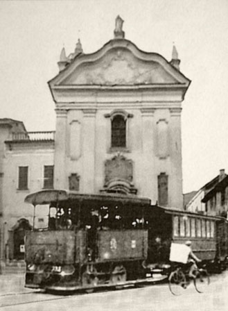 Vigevano, San Bernardo church, 1920s